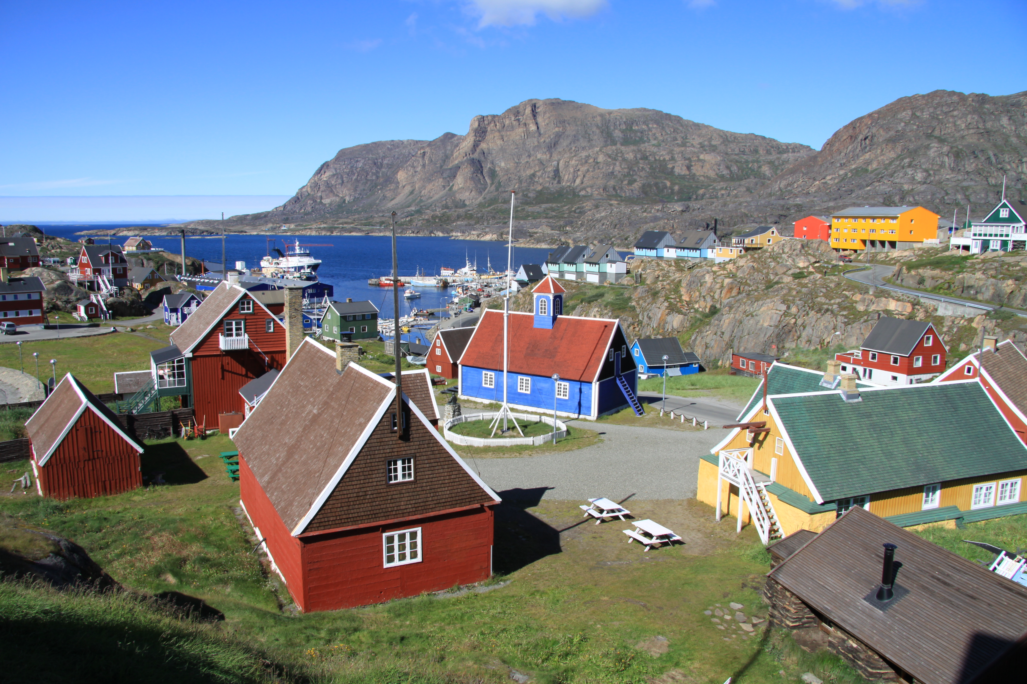 Houses in Sisimiut with old church, Greenland - Google Maps - Google Earth